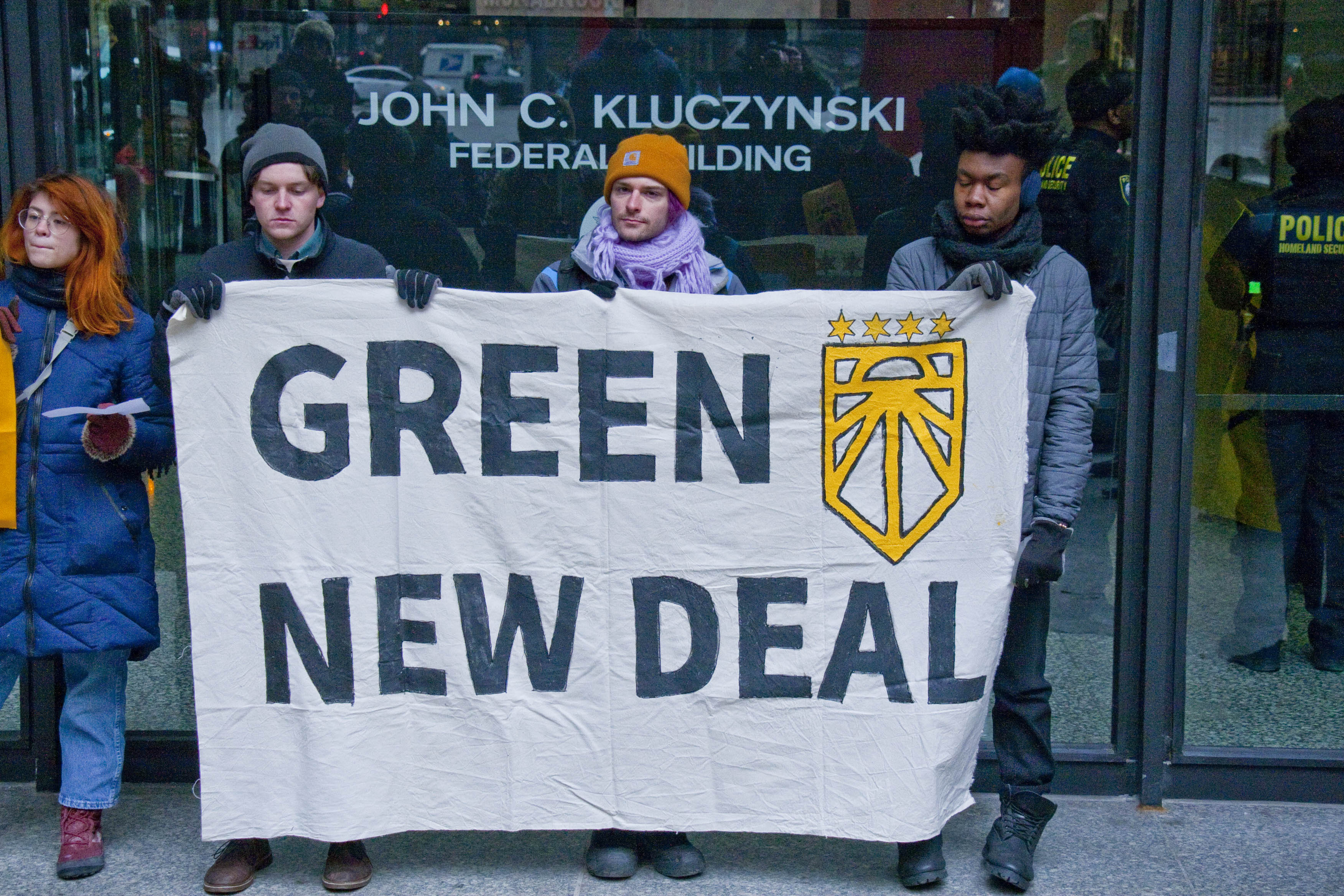 Banner for a Green New Deal. Chicago Sunrise Movement rallies for a Green New Deal, in Chicago (Illinois), 27 February 2019.